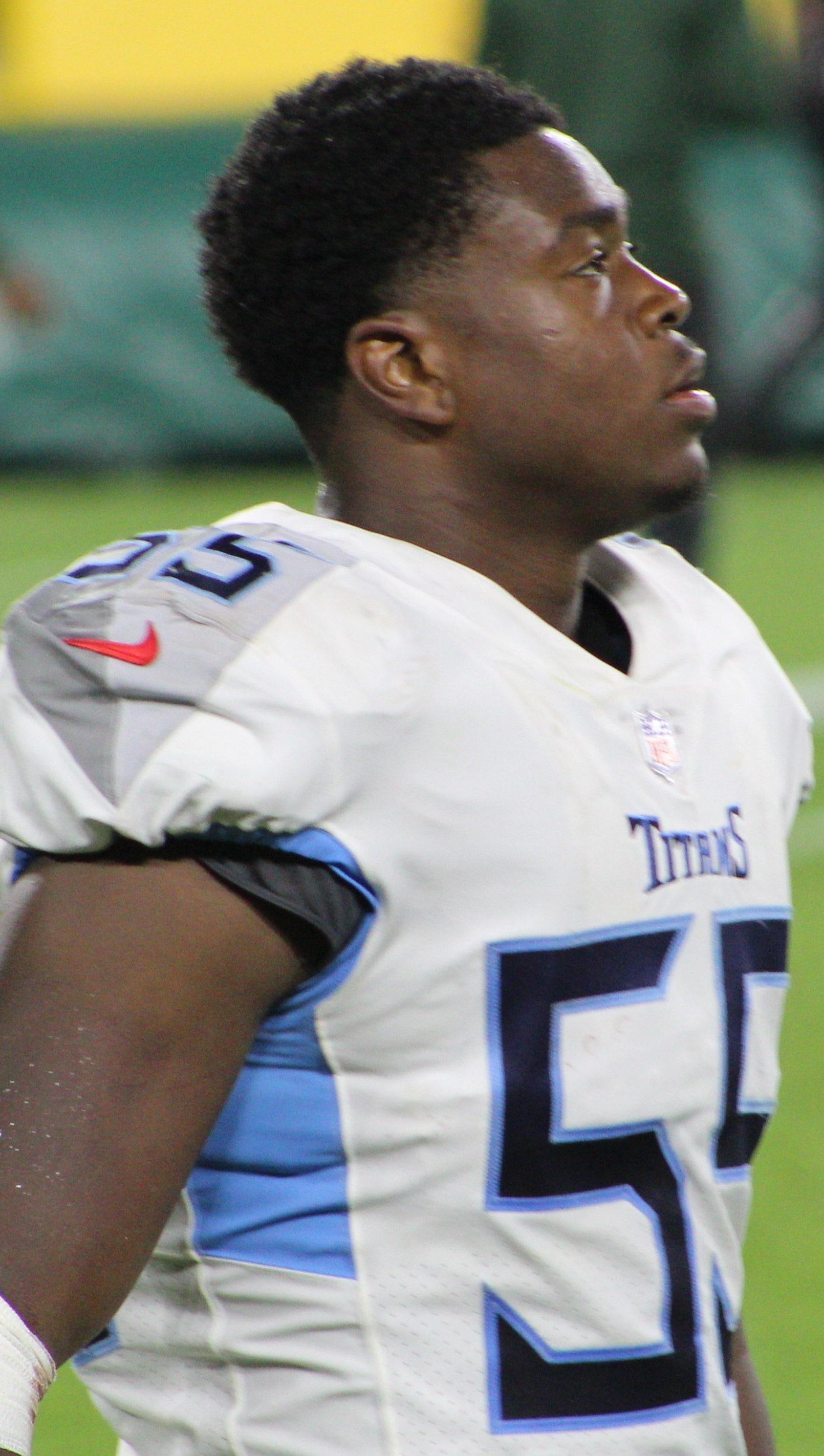 Jayon Brown, Tennessee Titans at Green Bay Packers (Preseason), August 9, 2018